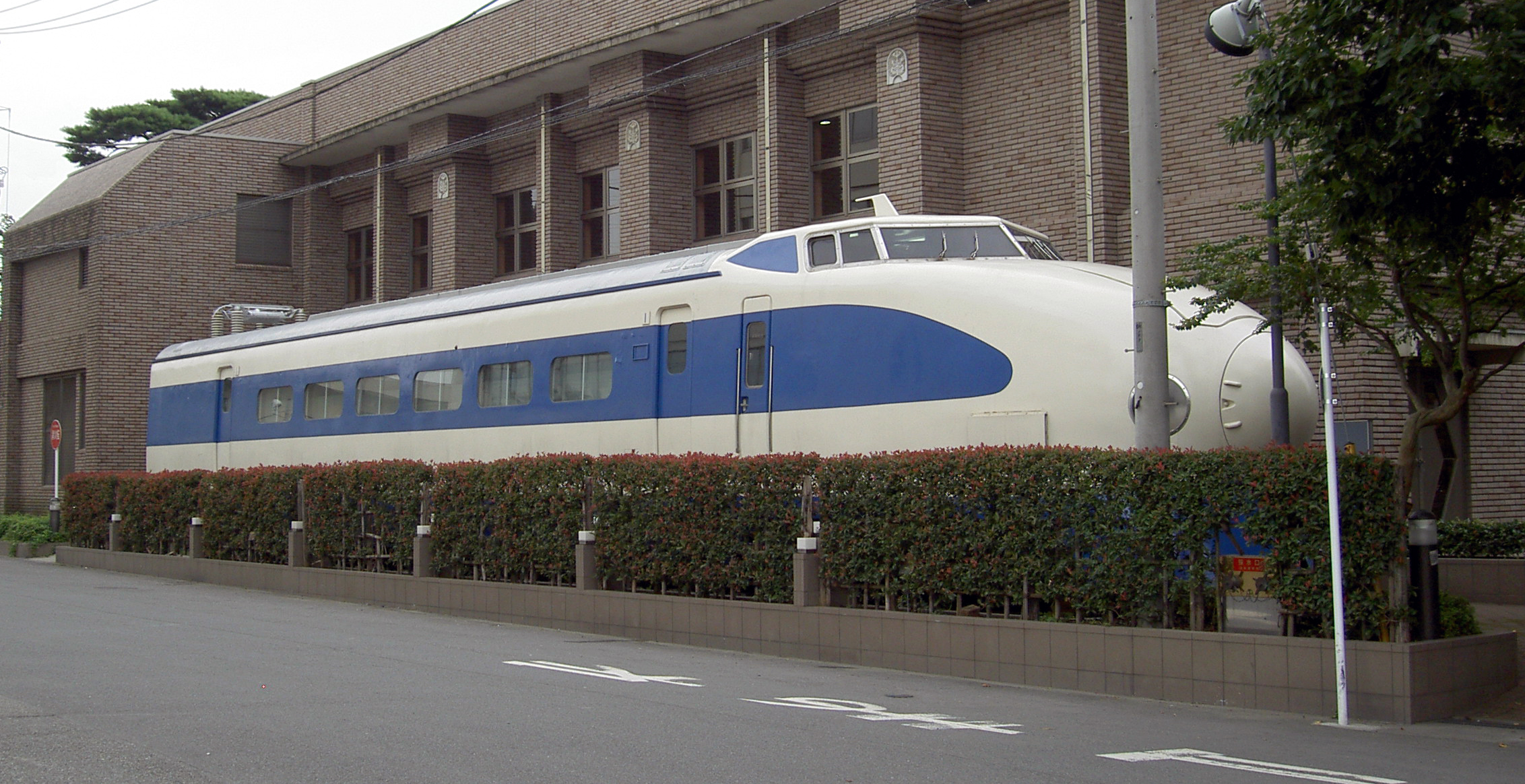 Preserved Class 951 shinkansen car 951-1 at Hikari Plaza, Kokubunji in Tokyo, 29 July 2006